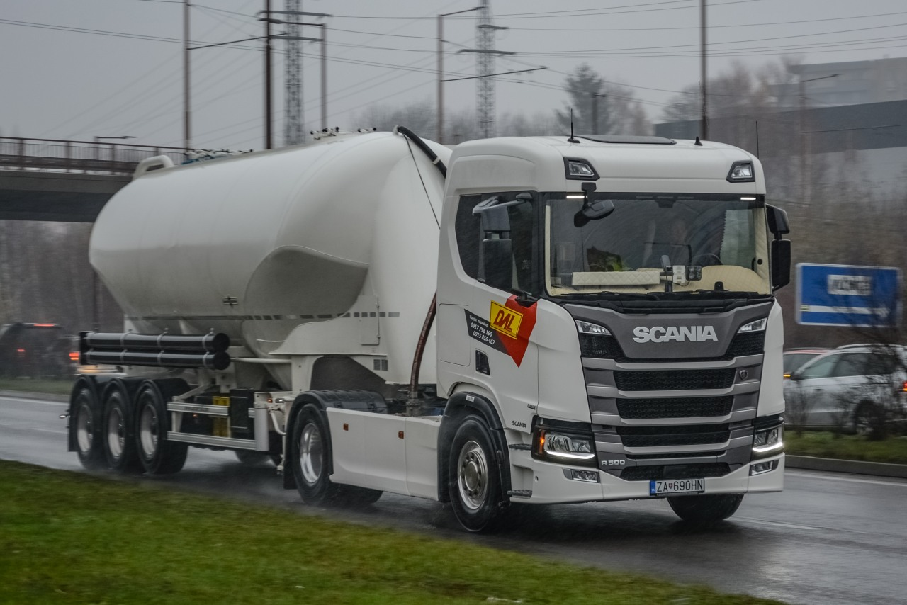 Prime mover Scania NEW R500 Normal